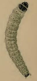 Stainton’s Natural History of the Tineina (1855–1873): Agonopterix carduella